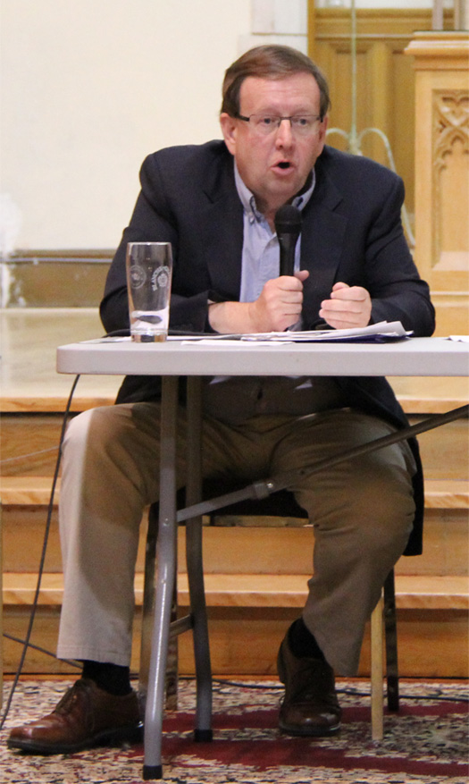 Canadian senator Percy Downe, pictured in 2013.